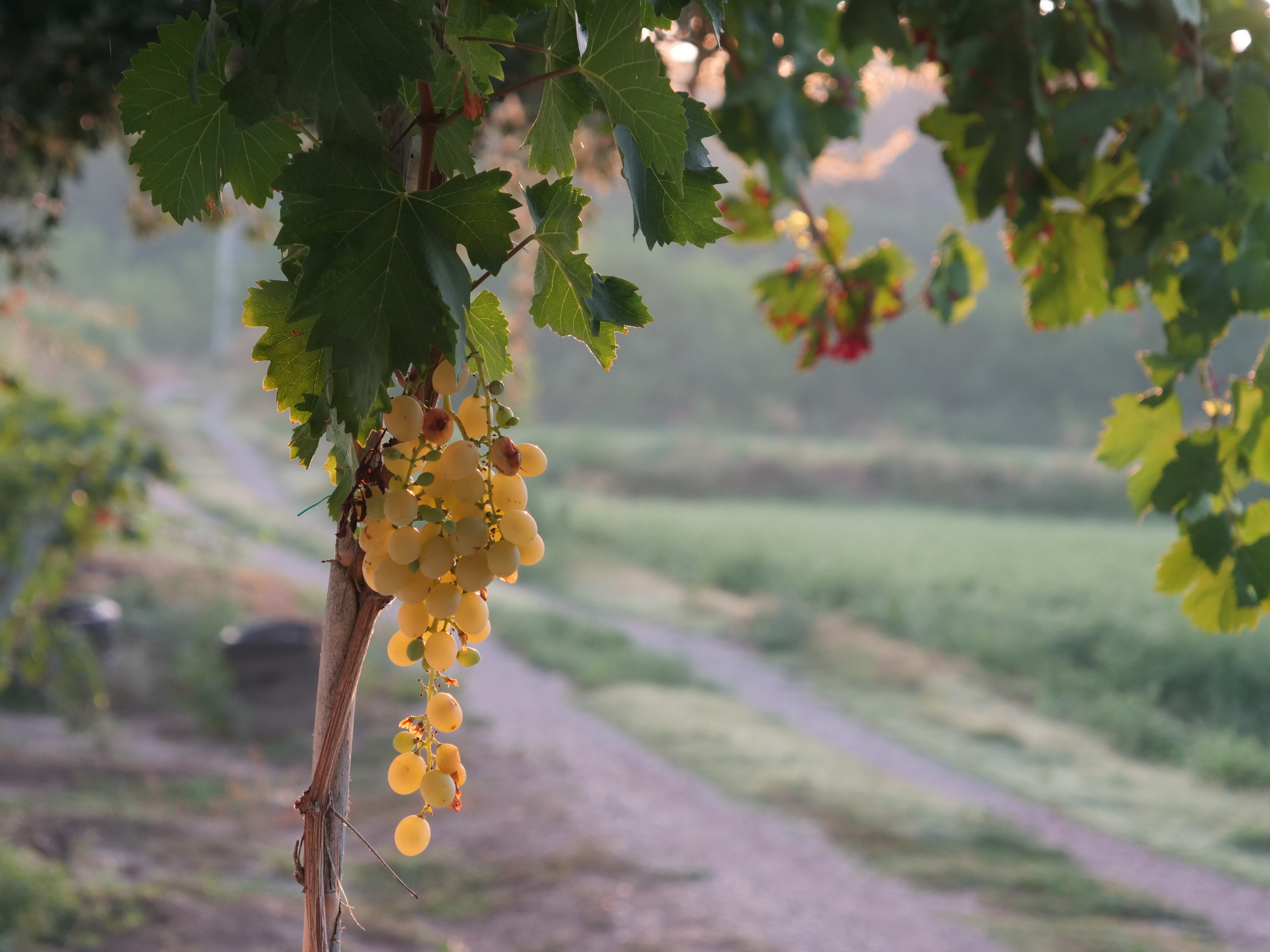 Moscatel